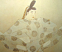 A portrait of Emperor Juntoku of Japan